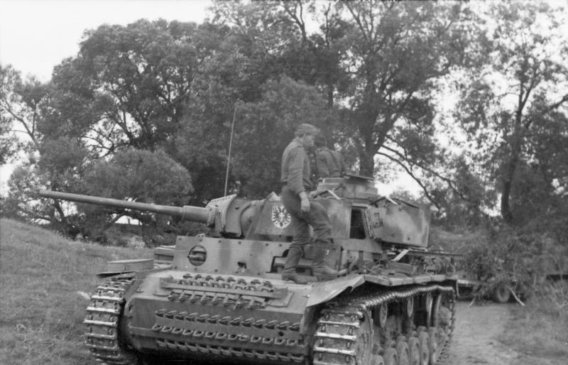 Member of the 2. Panzer-Division[1]